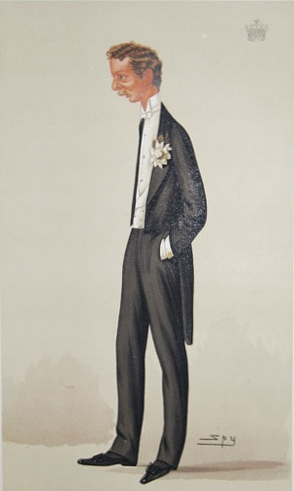 Caricature of Arthur William Cairns, 2nd Earl Cairns. Caption read "the Woolsack".